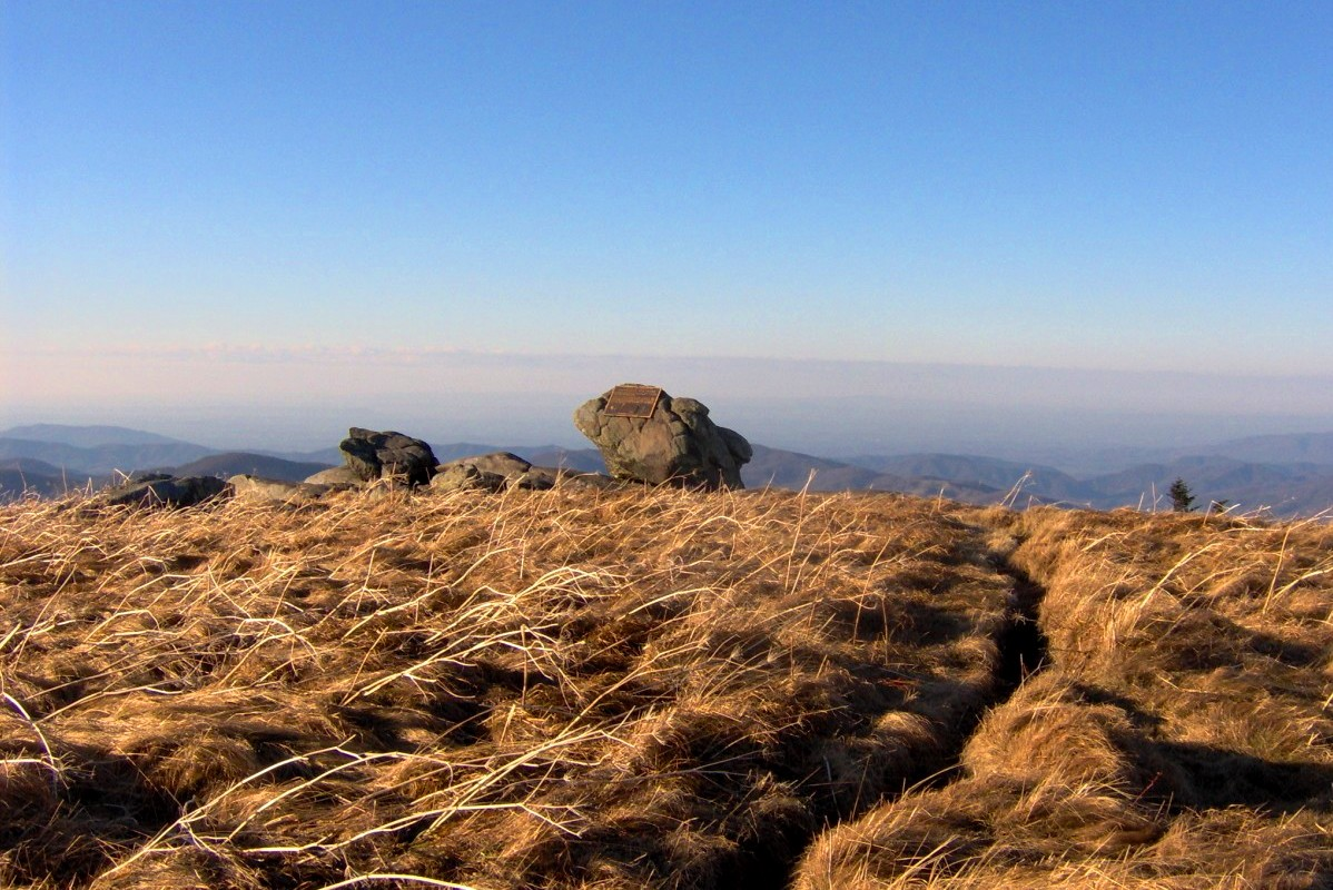 Looking north from Grassy Ridge Bald, in the Roan Highlands. The plaque on the boulder at the center is a dedication to Rex Peake, a local farmer and conservationist.